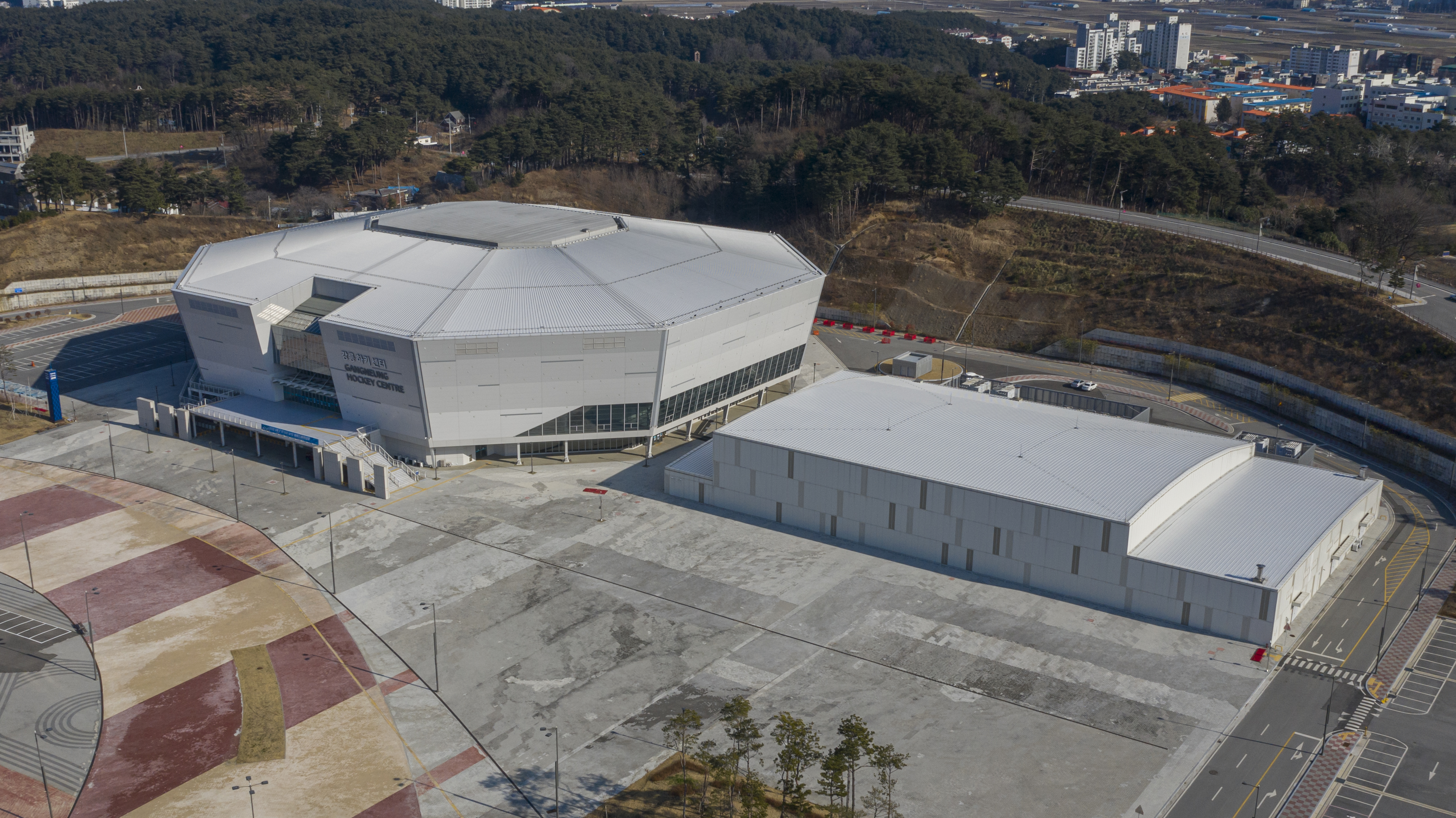 Aerial view of Gangneung Hockey Centre, South Korea